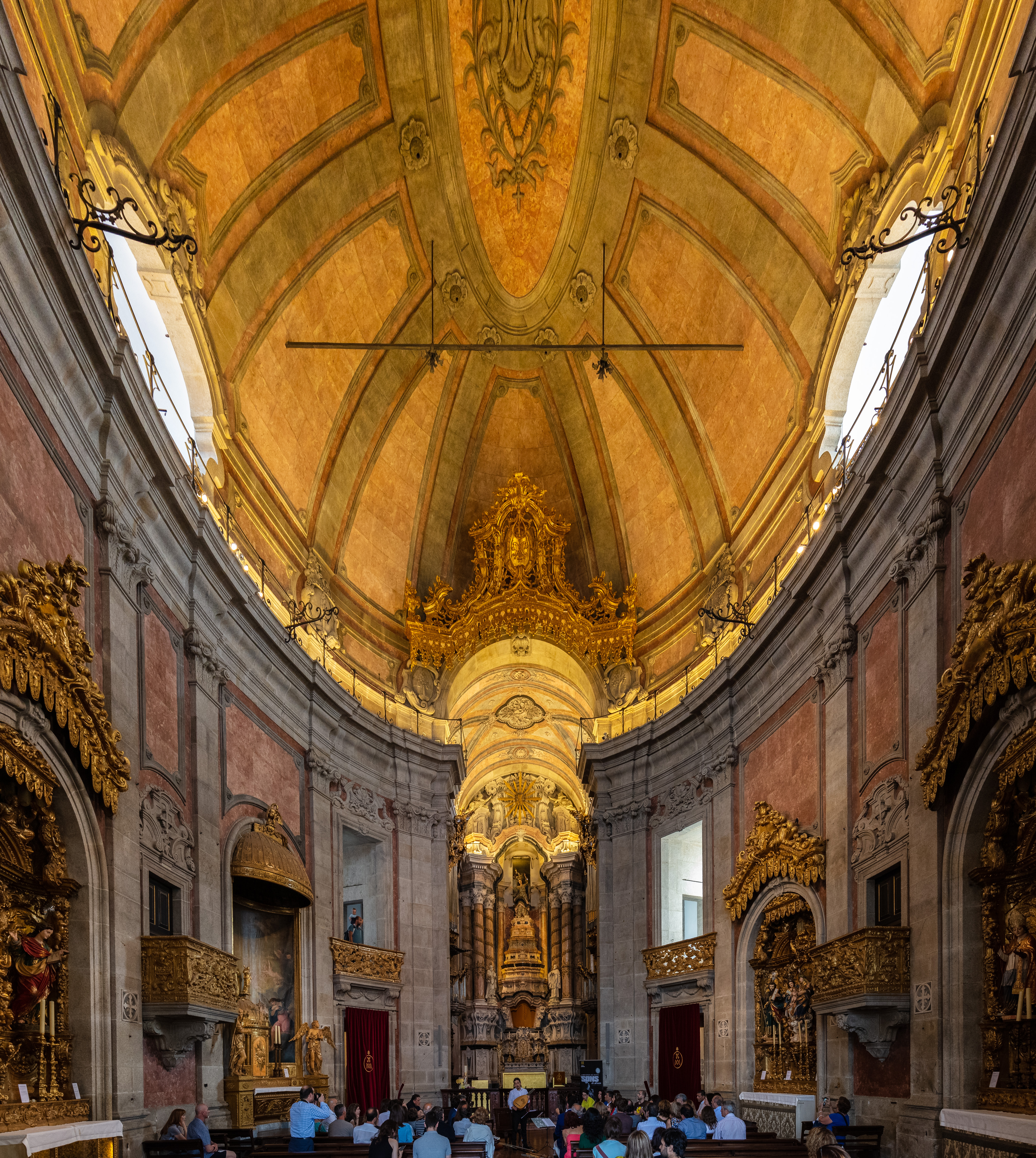 Igreja dos Clérigos, Porto, Portugal